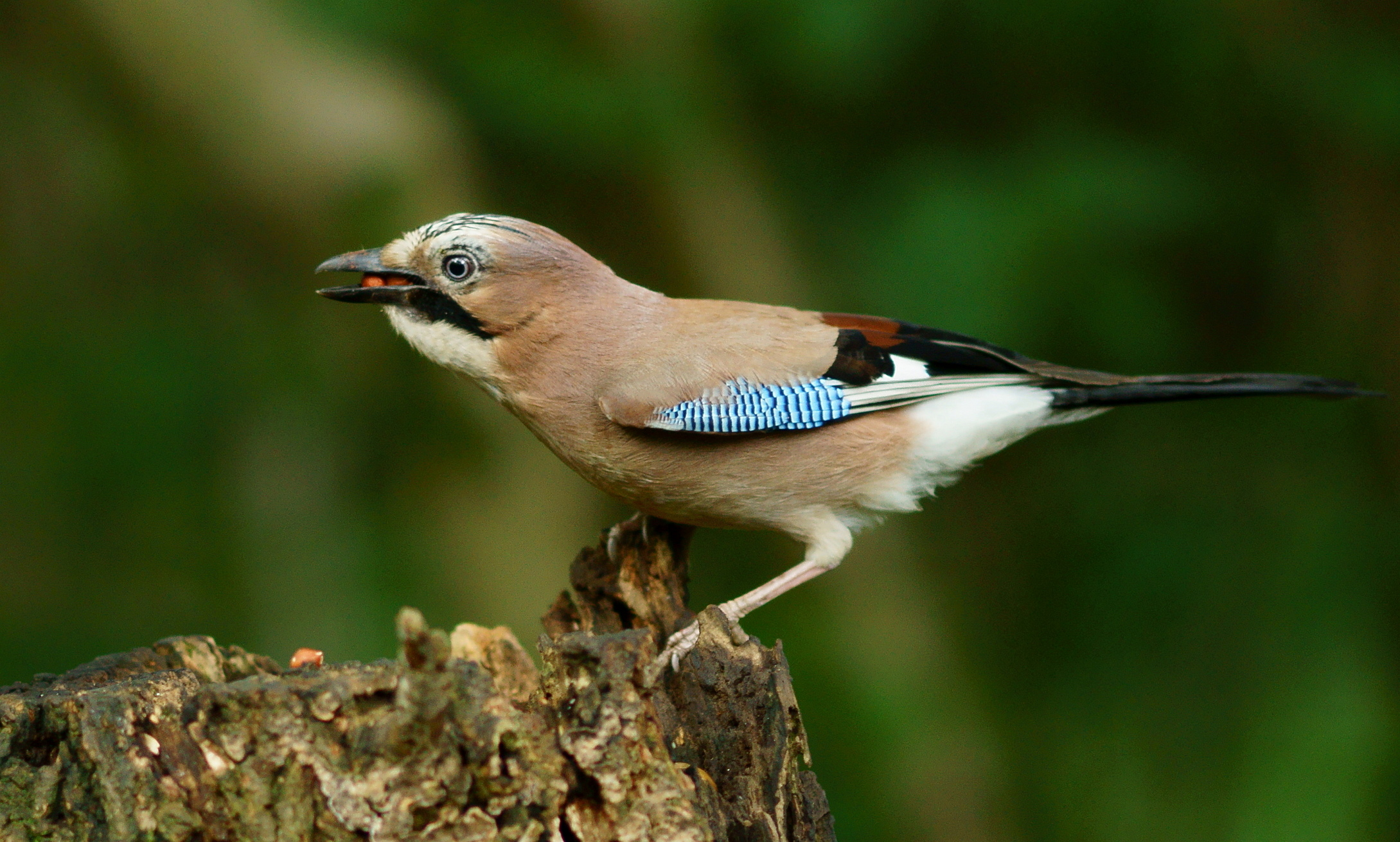 Seen at the Alverstone Mead Nature Reserve.